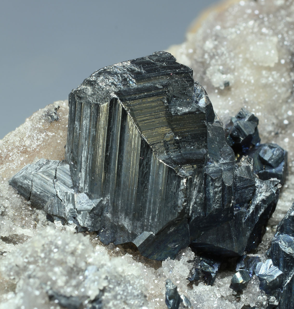 Freieslebenite crystal (1,5 cm). Hiendelaencina (Guadalajara) Spain. Col. Escuela de Minas de Madrid, Foto J. Callé